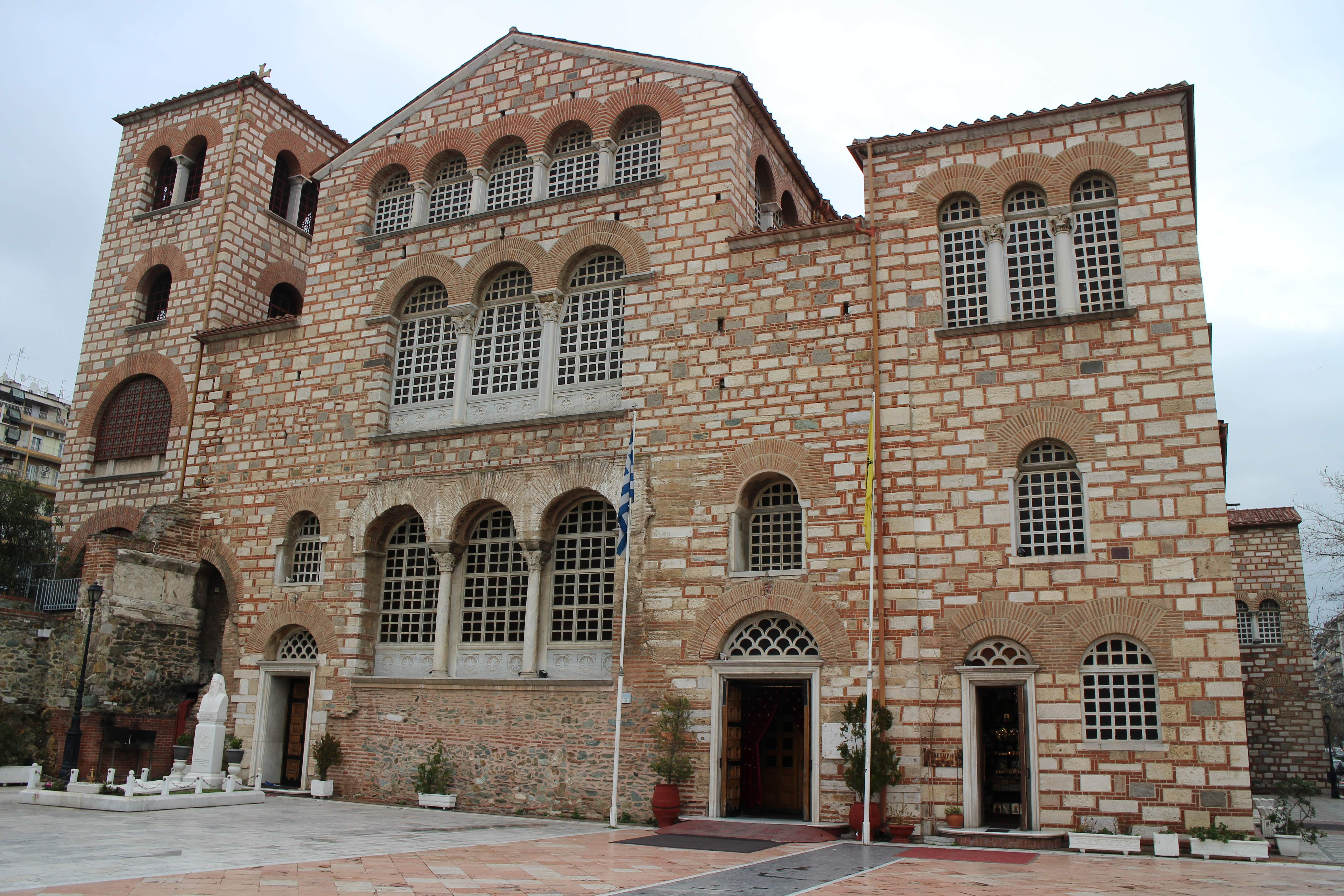 Church of Saint Demetrius, Thessaloniki